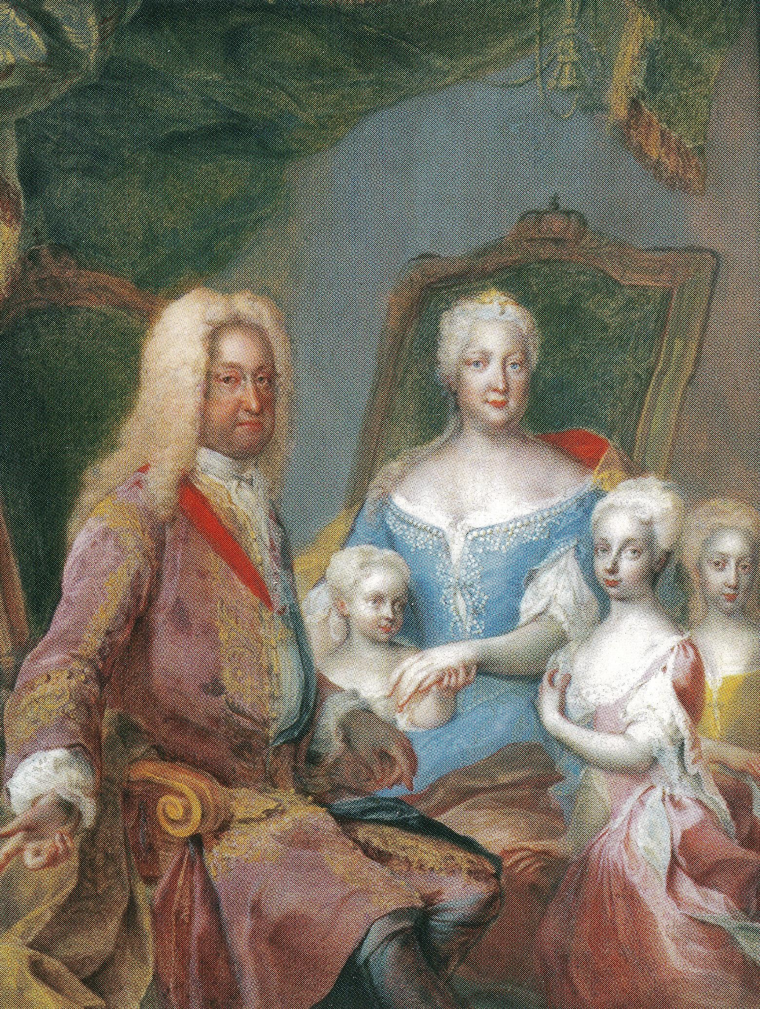 Charles VI, Empress Elisabeth Christine holding Archduchess Maria Amalia, Archduchess Maria Theresa standing and Archduchess Maria Anna at the right, in the background.